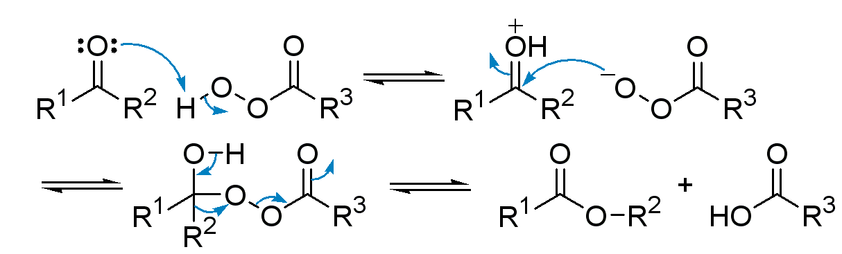 Selfmade with ChemDraw